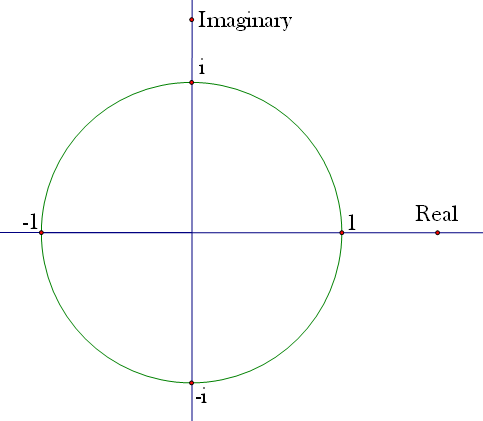 Complex Plane